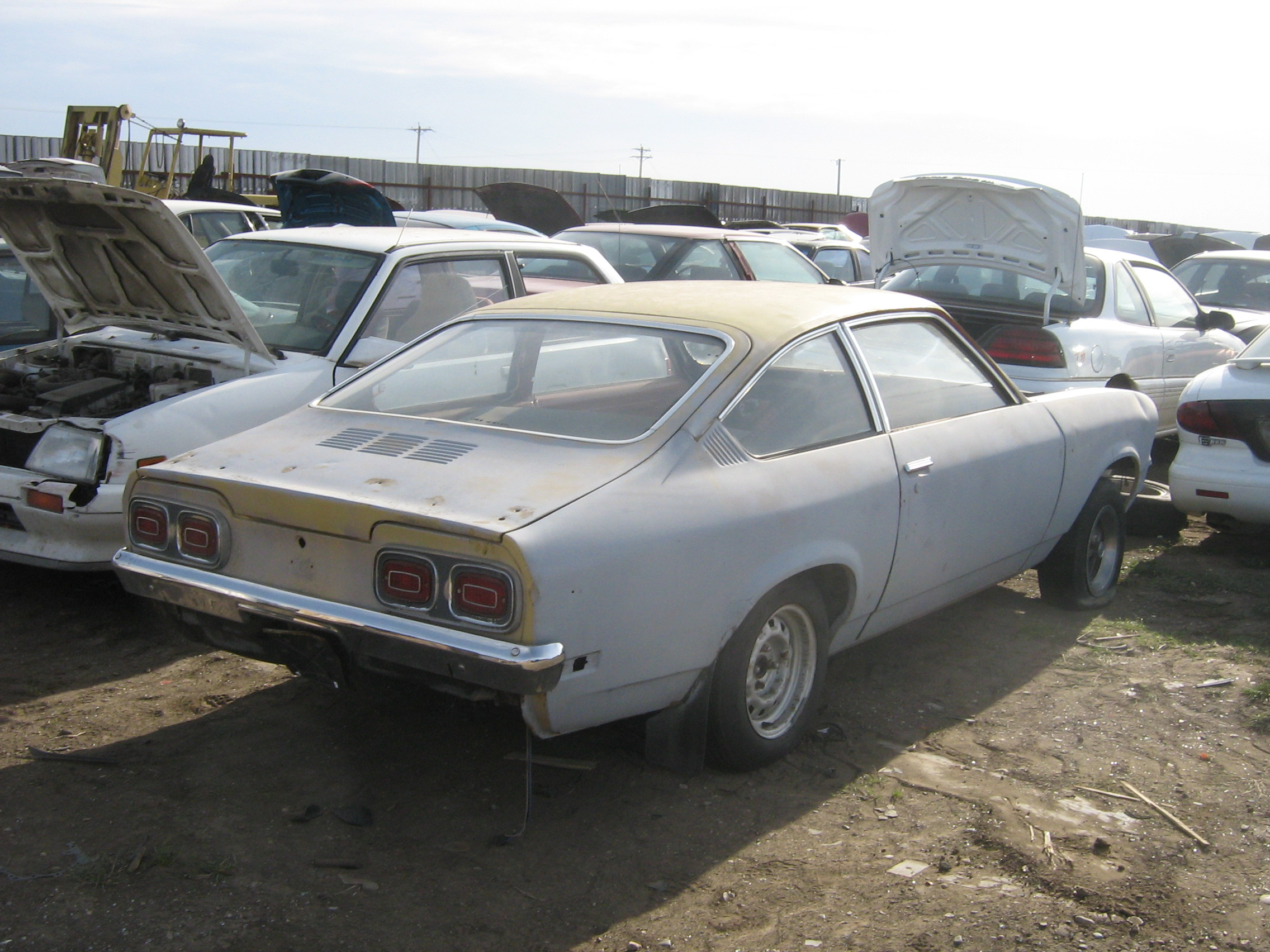 Pontiac Astre in the scrapyard. Rare find (or a Chevrolet Vega) these days. Almost looks like a failed project.